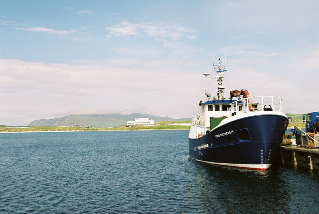 Grutness Pier and Fair Isle Ferry, Shetland View of ferry to Fair Isle - the "Good Shepherd", looking north west across Sumburgh Airport to the cloud-capped Fitful Head.